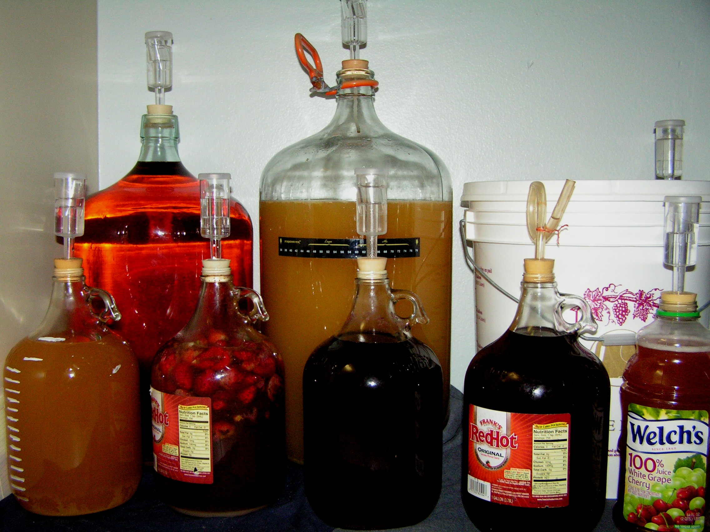 Various common fermentation vessels for homebrewing